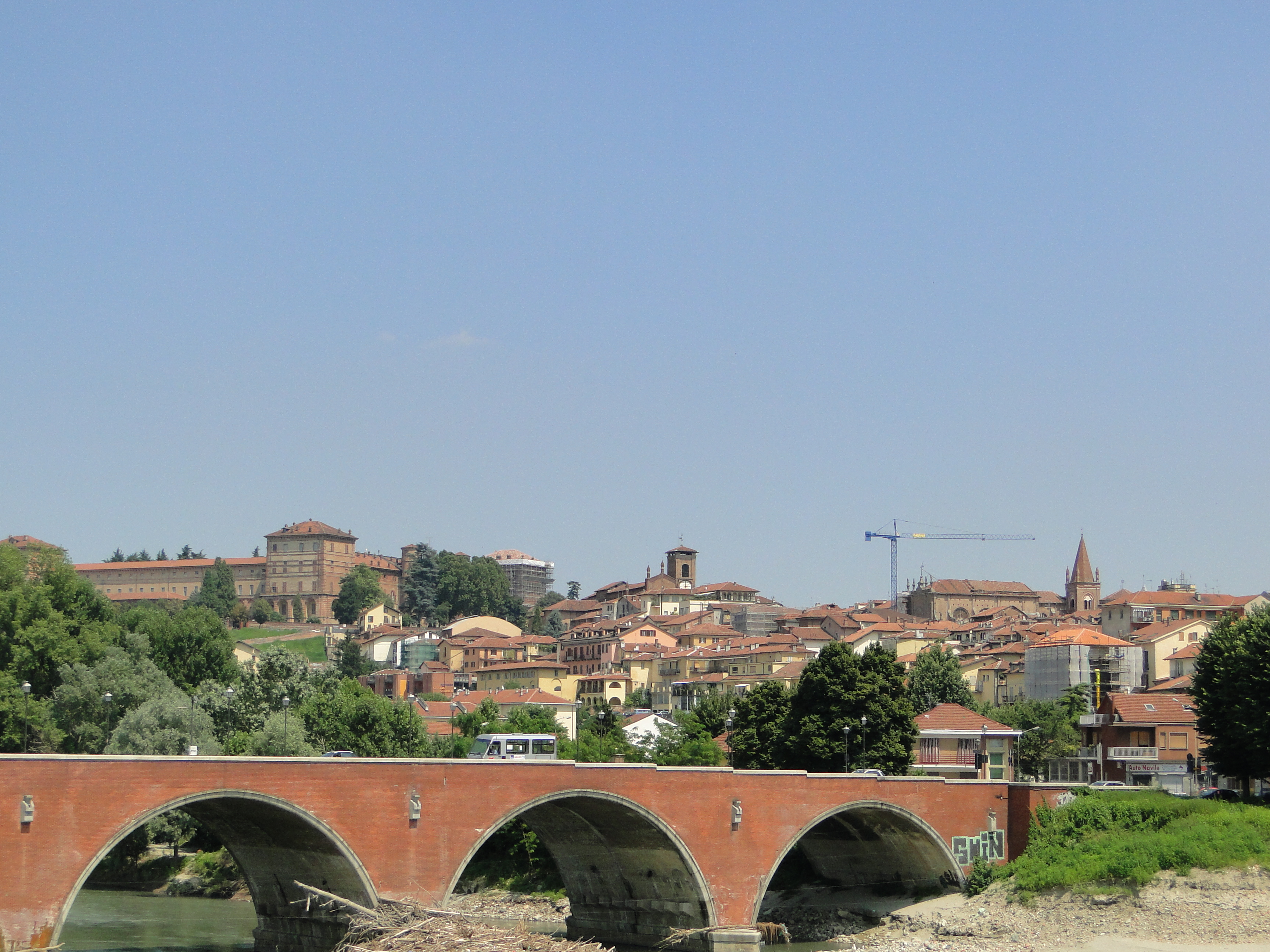 View of Mocalieri